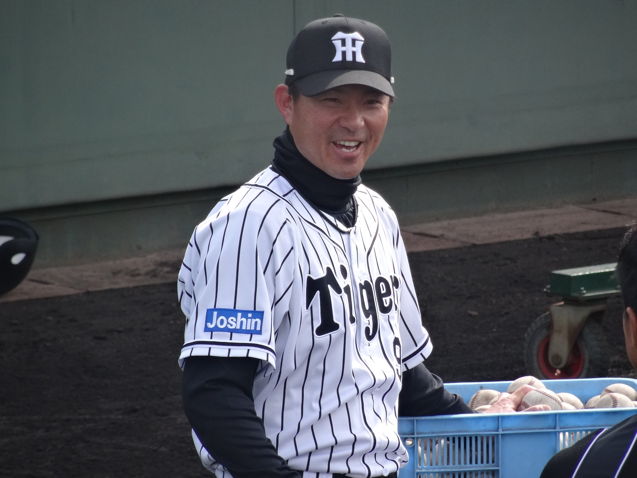 So Tsutsui, coach of the Hanshin Tigers, at Hanshin Naruohama Baseball Ground